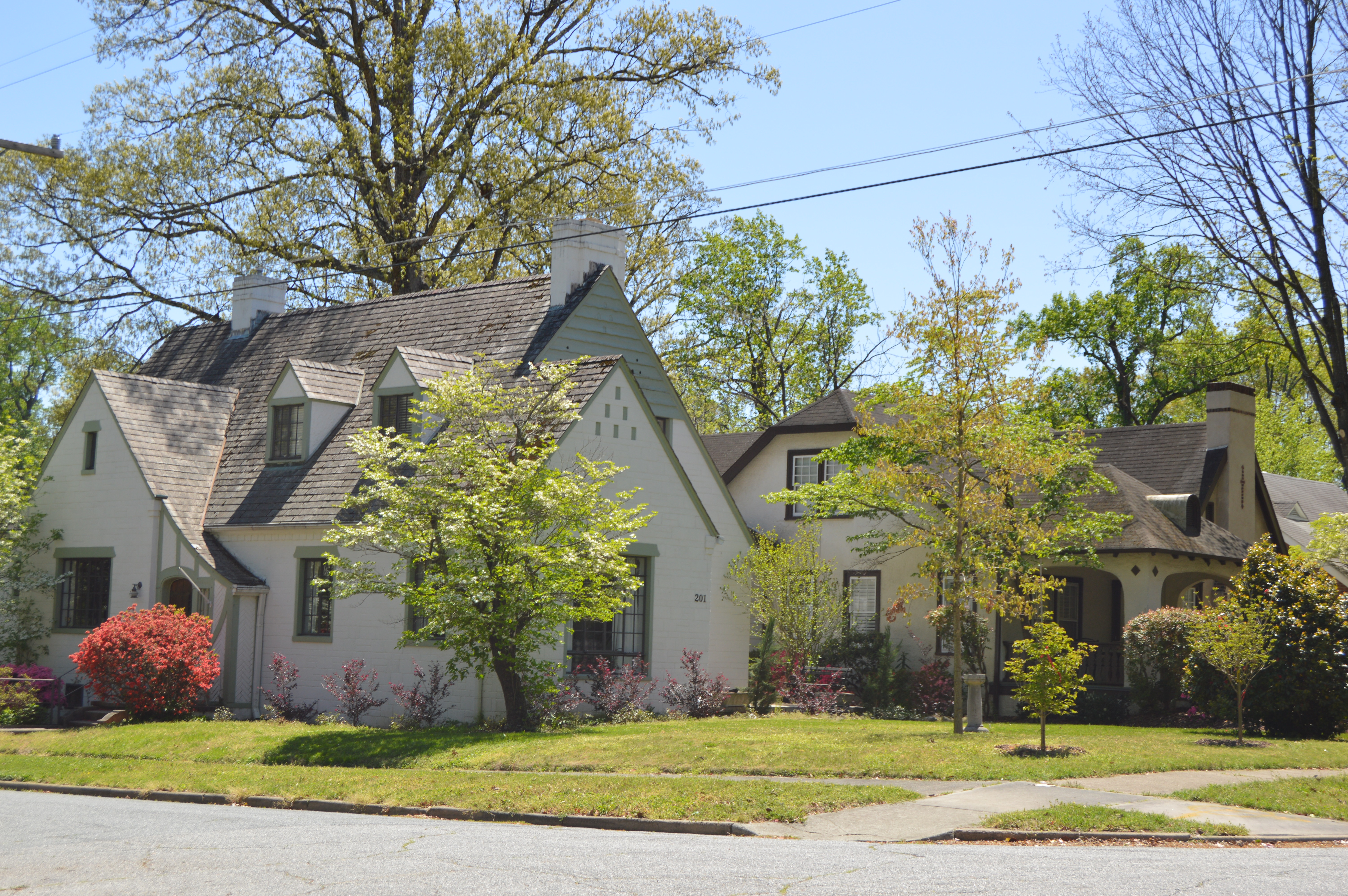 Houses on the southeastern corner of the intersection of Sylvan Road and Tremont Drive in Greensboro, North Carolina, United States. This block is part of the Sunset Hills Historic District, a historic district that is listed on the National Register of Historic Places.